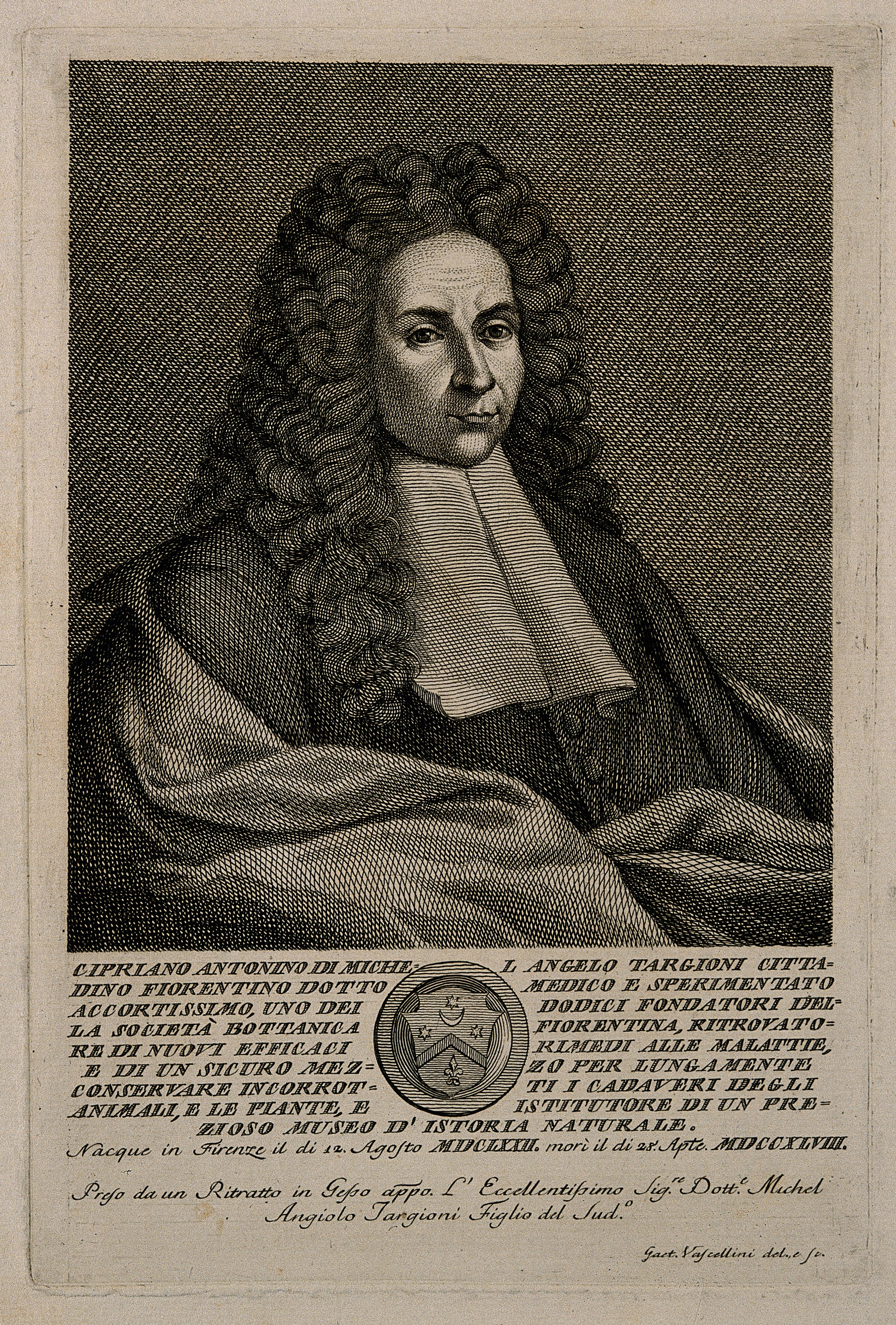 Cipriano Antonino Targioni. Line engraving by G. Vascellini after M. Targioni. Iconographic Collections Keywords: portrait prints; engravings; Cipriano Antonino Targioni